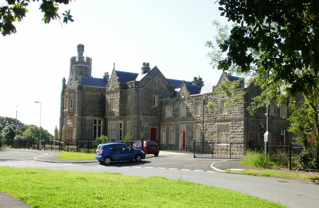 Malpas Court, Newport Malpas Court is a Grade II listed building, originally designed by Thomas Wyatt of London and built in the 1830s for the Prothero family. Thomas Prothero was resident here during his year as High Sheriff of Monmouthshire in 1846. The house was still listed as belonging to the Prothero family in 1901. For some years in the second half of the 20th century it was a social club, but by 1998 it was in considerable disrepair. Newport Council, with grants from various sources totalling £3.5 million, oversaw a major redevelopment project. The official reopening was performed by the Duke of Edinburgh on November 27th 2008. The building will be used as a training centre by Newport Wastesavers, and for community projects.